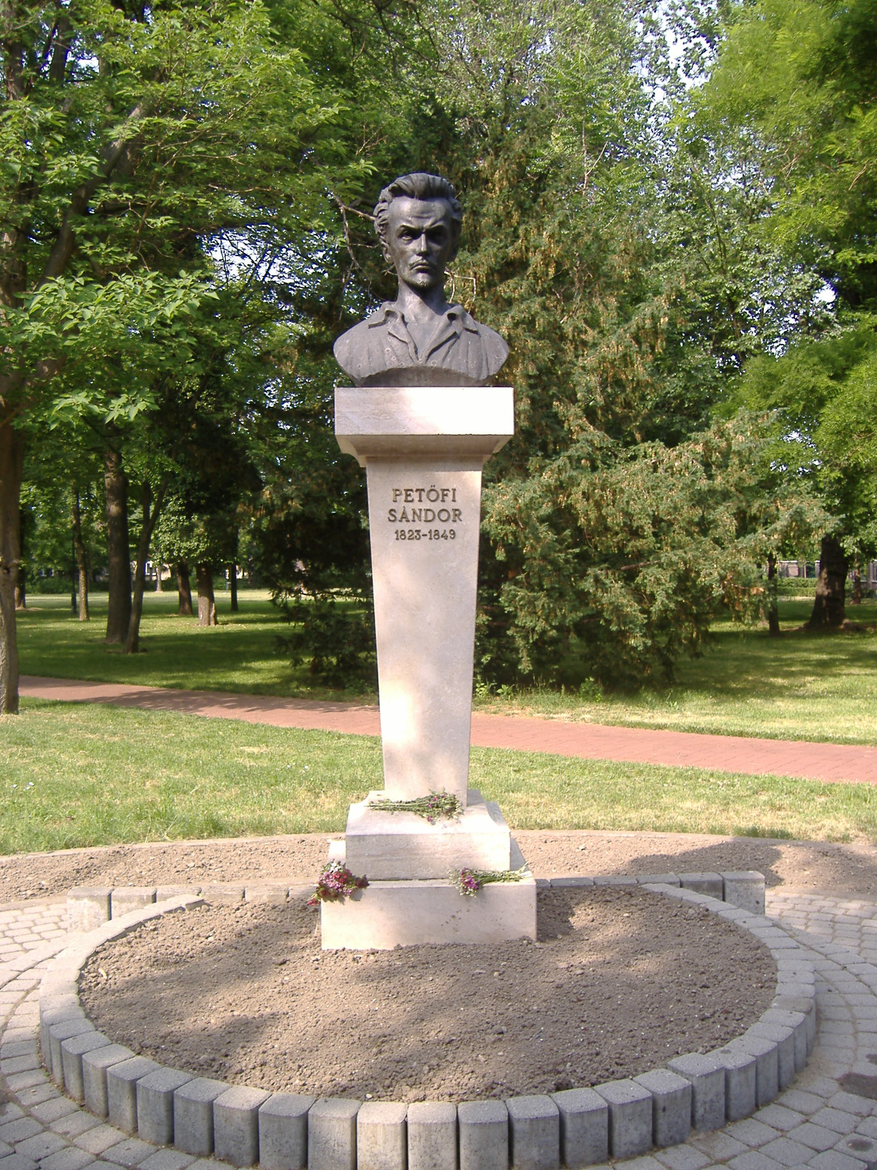 Statue of Sándor Petőfi, Hungarian poet and freedom warrior in Makó, Hungary.